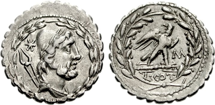 Lucius Aurelius Cotta. 105 BC. AR Serrate Denarius (3.82 g, 8h). Rome mint. Draped bust of Vulcan right, wearing laureate pileus; behind, mark of value above tongs; all within wreath Eagle standing on thunderbolt, head left; M in right field; all within laurel wreath. Crawford 314/1c; Sydenham 577a; Aurelia 21b. Good VF.